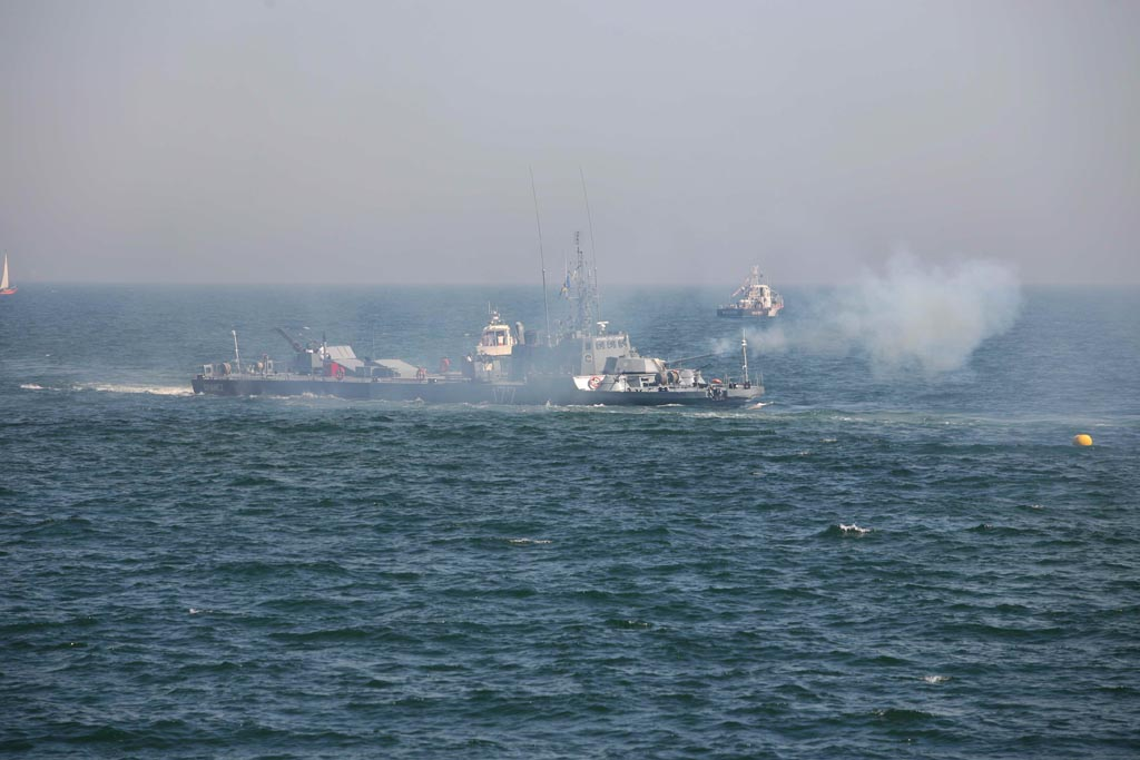 Armoured gunboat 177 simulates the repel of an attack of maritime targets by the 100 mm guns.